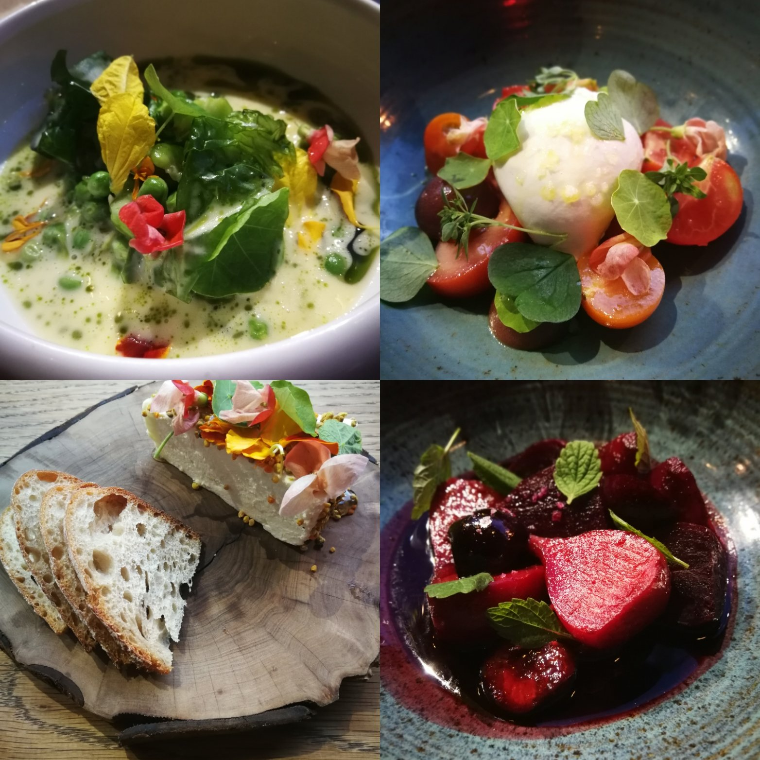 Modern Irish Food in Ireland uses many traditional ingredients cooked and presented in a way that reflects the international influences acquired by Irish Chefs who have travelled the world